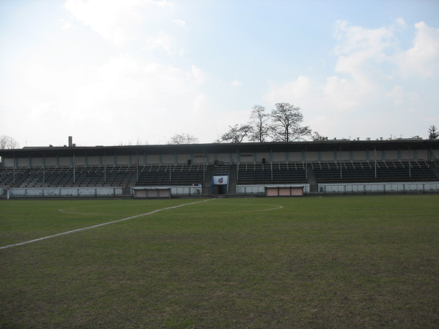 Włocłavia Stadium